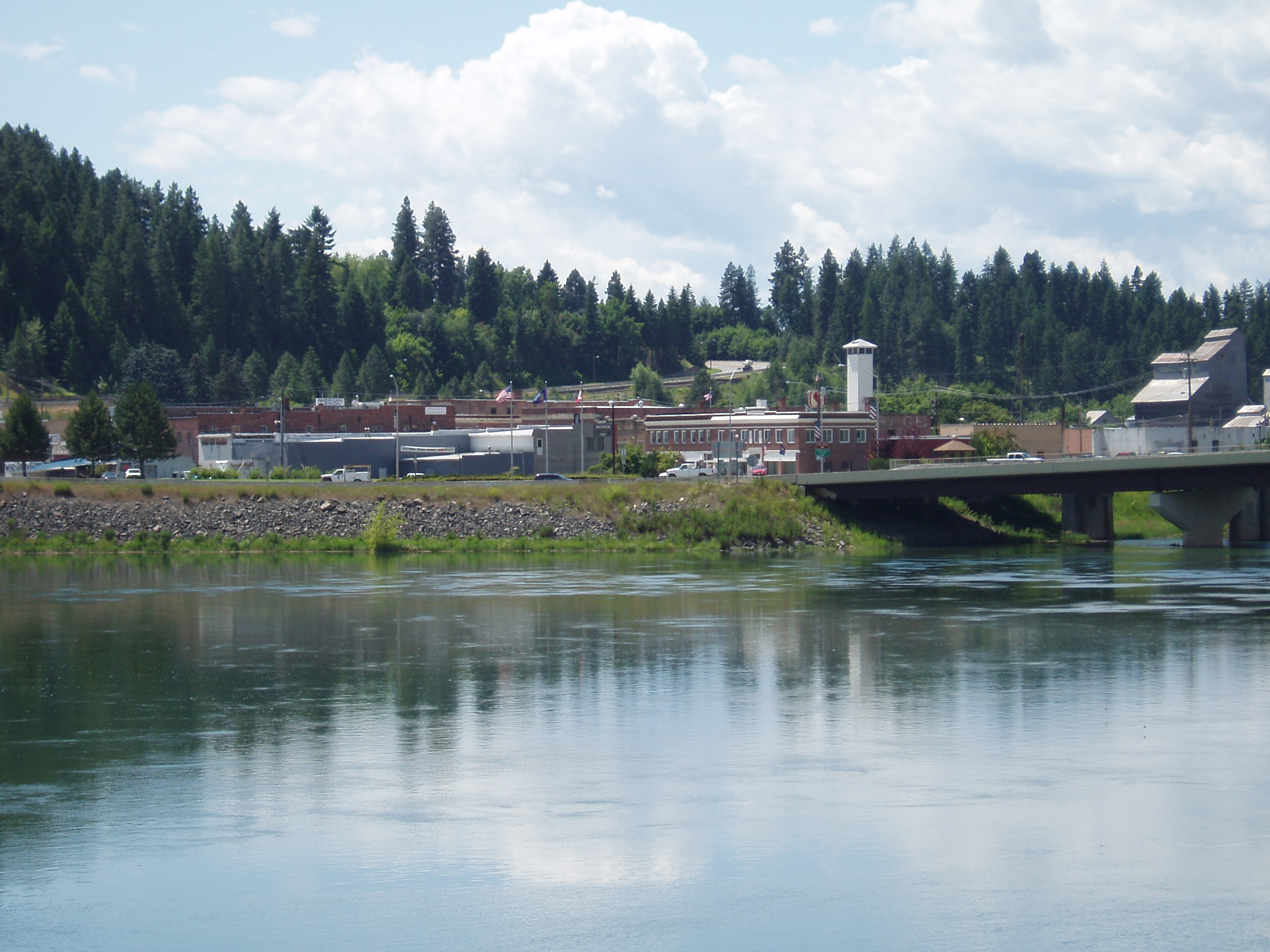 "The town of Bonners Ferry lies between dense conifer forests and the waters of Kootenai River."